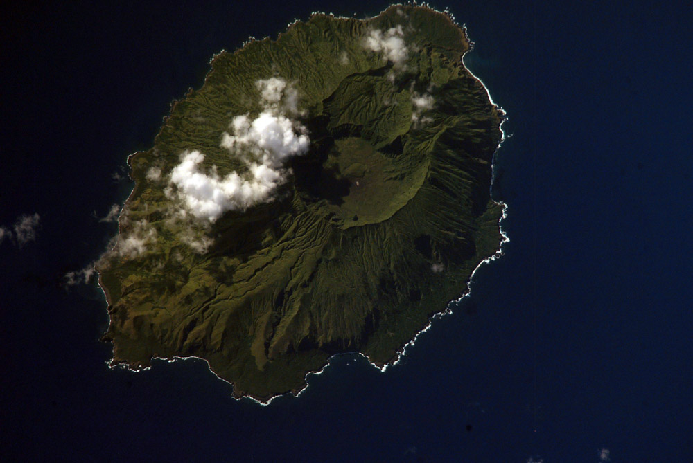 NASA Space Shuttle image of Agrihan island in the Northern Mariana Islands. ISS Crew Earth Observations: ISS006-E-42419 Identification Mission ISS006 (Expedition 6) Roll E Frame 42419 Country or Geographic Name NORTHERN MARIANA IS. Features AGRIHAN, VOLCANIC CRATER Center Point Latitude 19.0° N Center Point Longitude 145.5° E Camera Camera Tilt 30° Camera Focal Length 800 mm Camera Kodak DCS760C Electronic Still Camera Film 3060 x 2036 pixel CCD, RGBG array. Quality Percentage of Cloud Cover 0-10% Nadir What is Nadir? Date 2003-04-01 Time 05:43:16 Nadir Point Latitude 19.1° N Nadir Point Longitude 147.5° E Nadir to Photo Center Direction West Sun Azimuth 261° Spacecraft Altitude 206 nautical miles (382 km) Sun Elevation Angle 37° Orbit Number 900